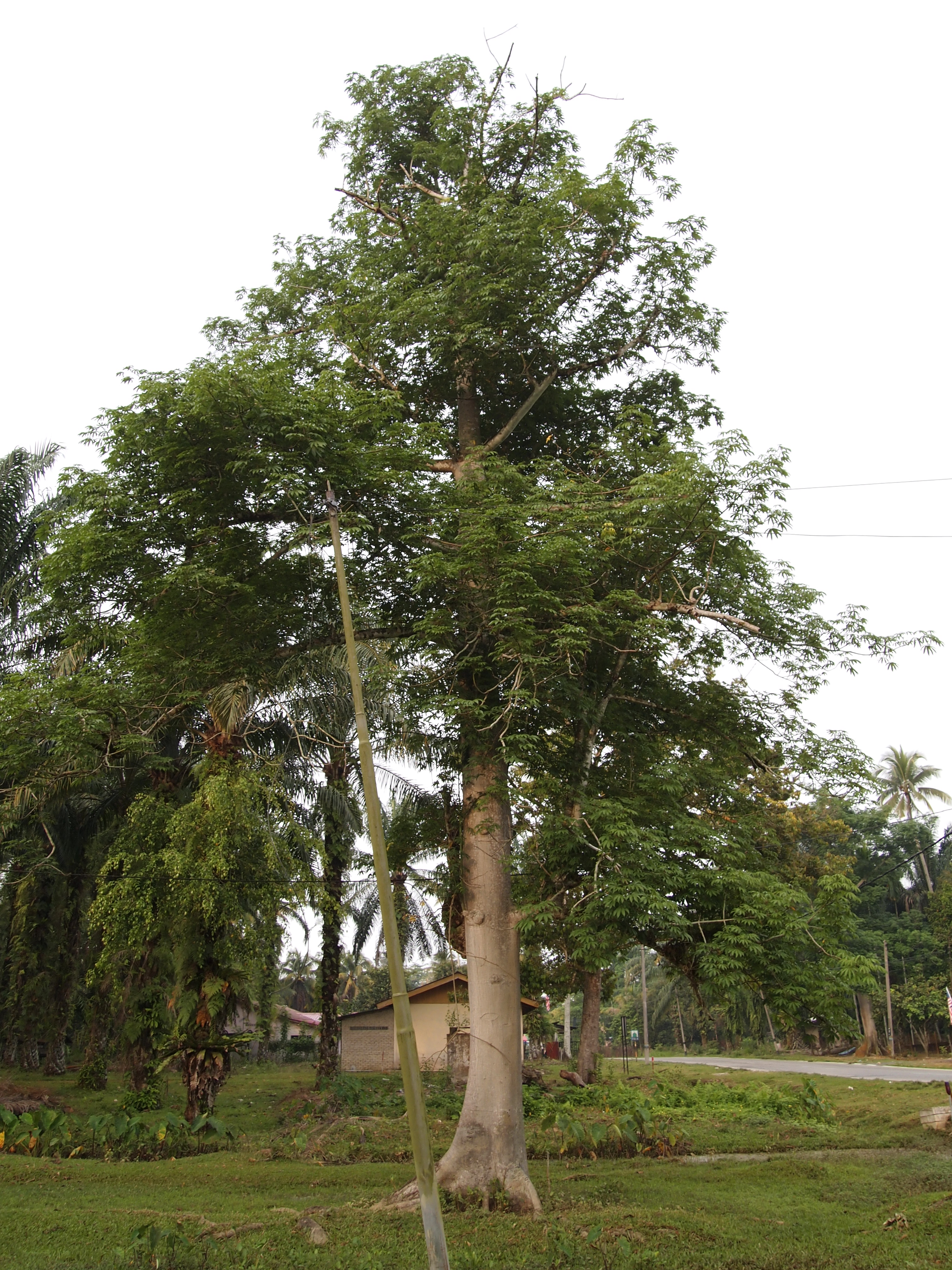 Ceiba pentandra